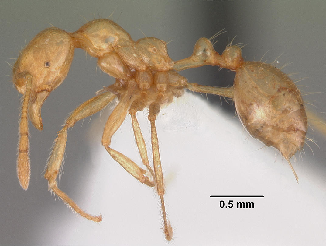 Profile view of ant Monomorium brocha specimen casent0102361.